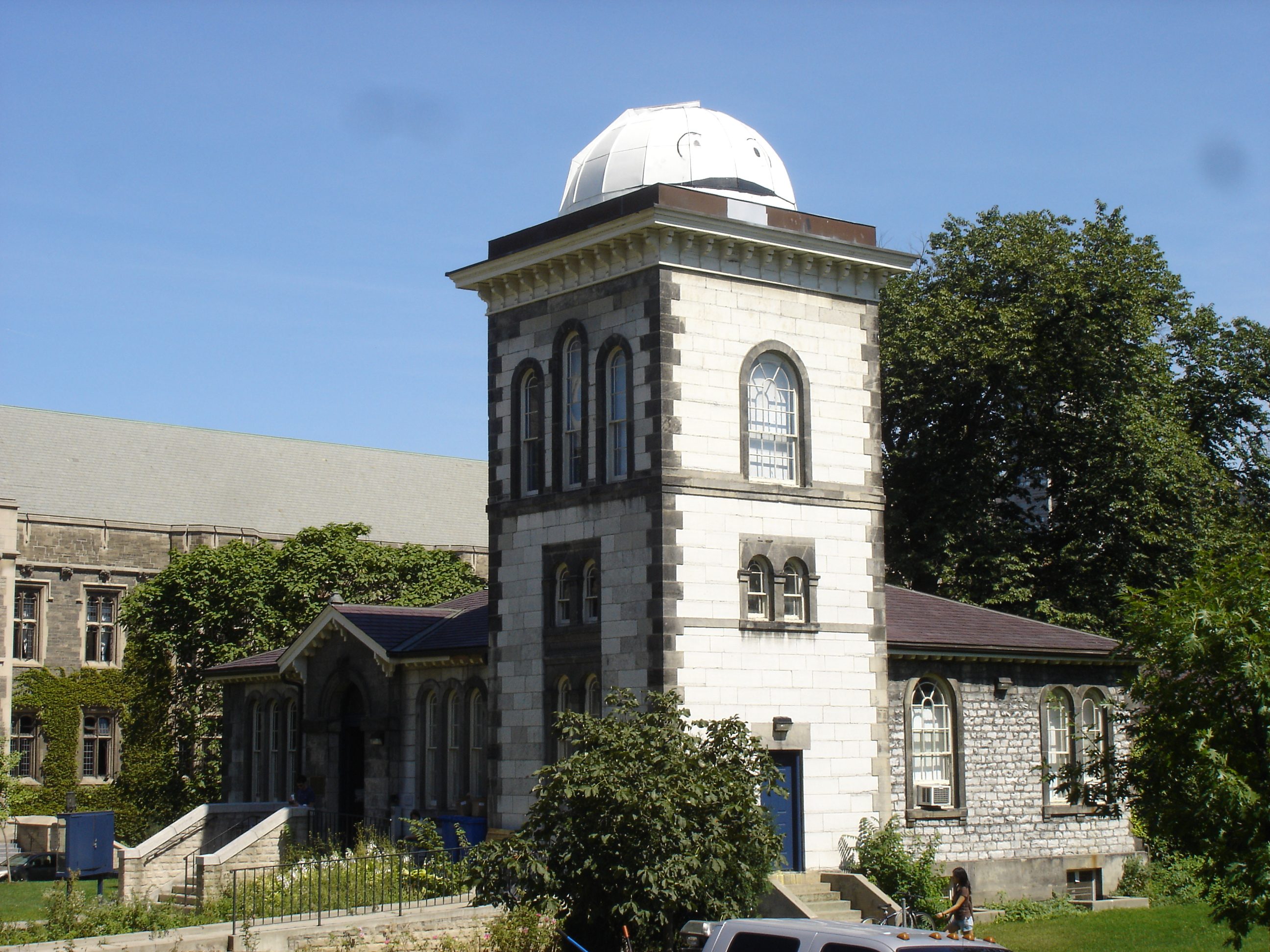 Toronto Magnetic and Meteorologic Observatory, south-west face